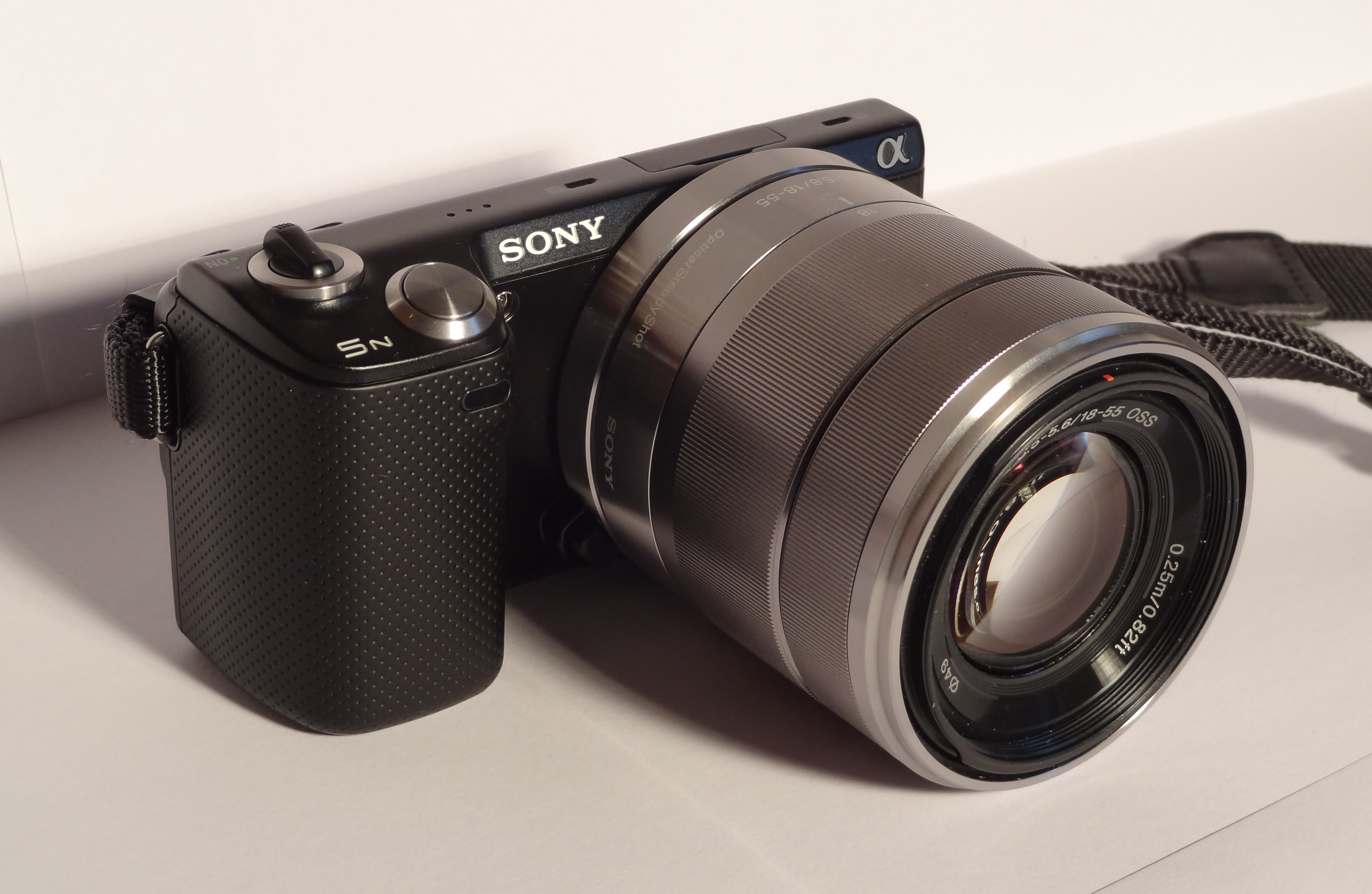 Sony NEX-5N with 18-55 mm.